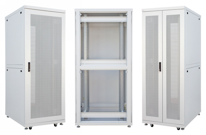 Rack Case, made by Signati - 42U 800x1000mm